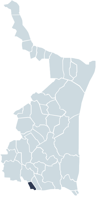 Municipality of Nuevo Morelos Tamaulipas